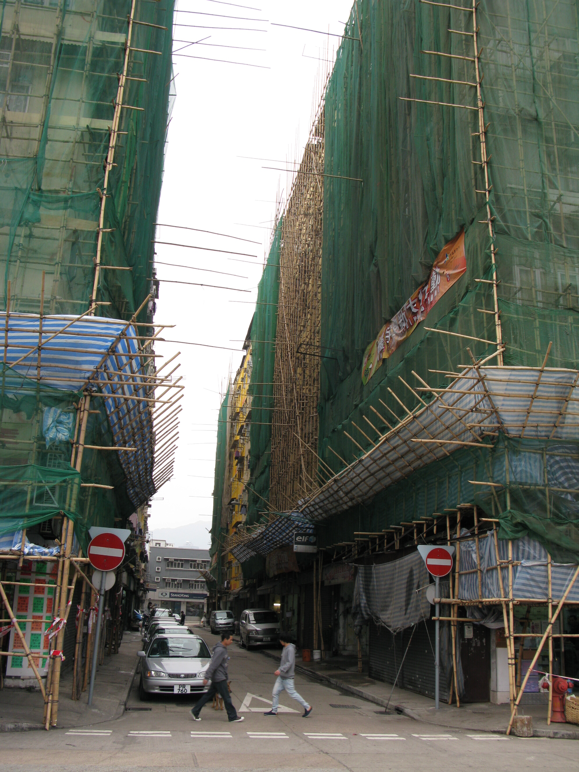 中文（香港）: 香港九龍土瓜灣十三街樓宇更新大行動 View into Pang Ching Street, one of the "13 Street", from the vicinity of the Cattle Depot Artists Village, across Ma Tau Kok Road. The building at the end of Pang Ching Street is in Mok Cheong Street.